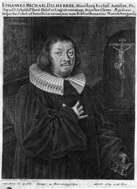 Portrait of Johann Michael Dilherr, copper engraving, 166x135 mm